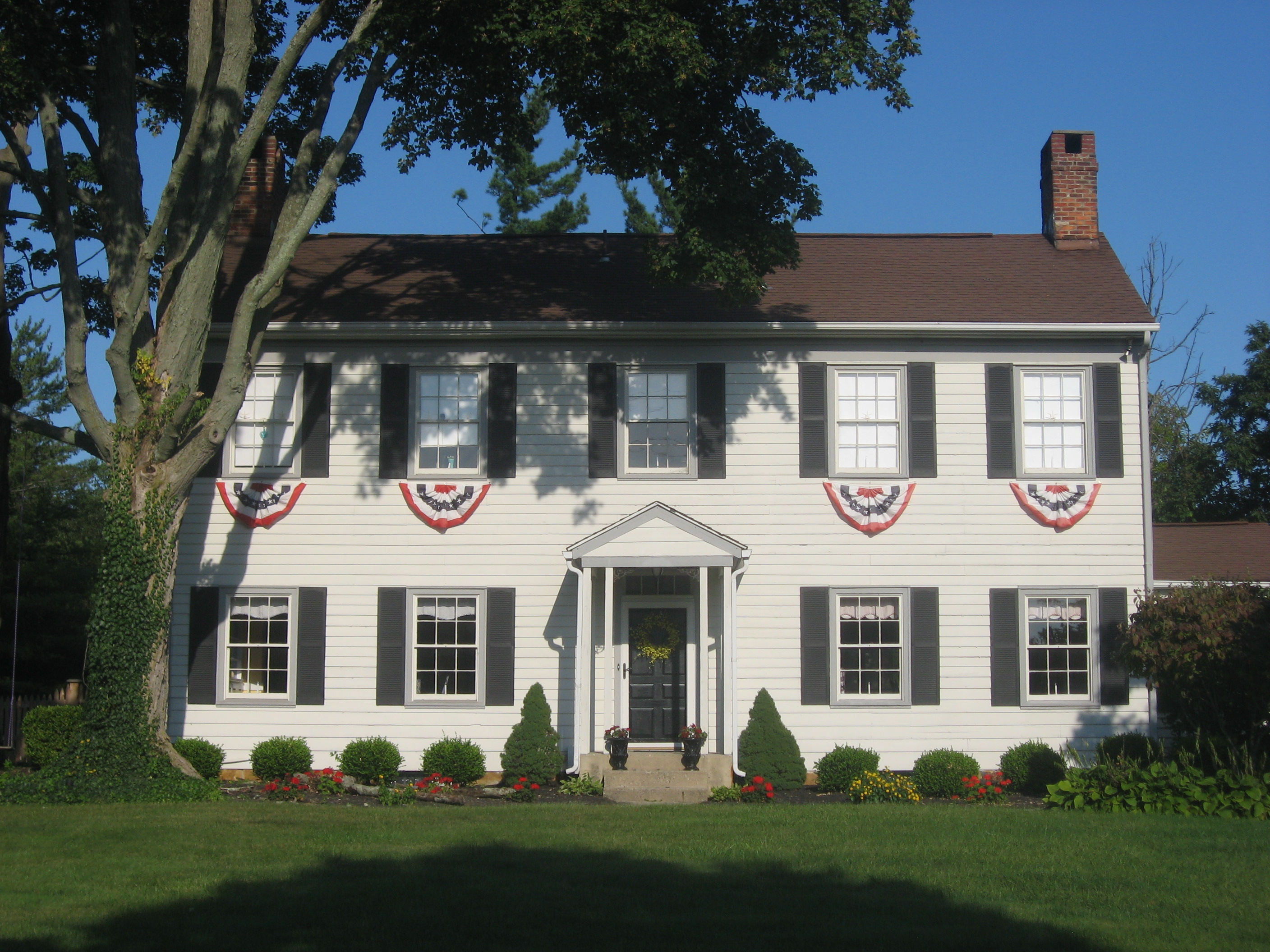 Front of the Gideon Hart House, located at 7328 Hempstead Road in Westerville, Ohio, United States. Built in 1820, it is listed on the National Register of Historic Places.